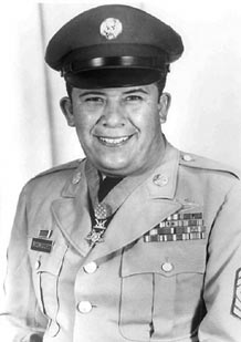 A picture of Cleto Rodriguez in uniform.